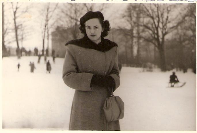 Ein Foto der Künstlerin und Holocaust-Überlebenden Helena Bohle-Szacki im Jahr 1938, aufgenommen in Schwarz-Weiß.